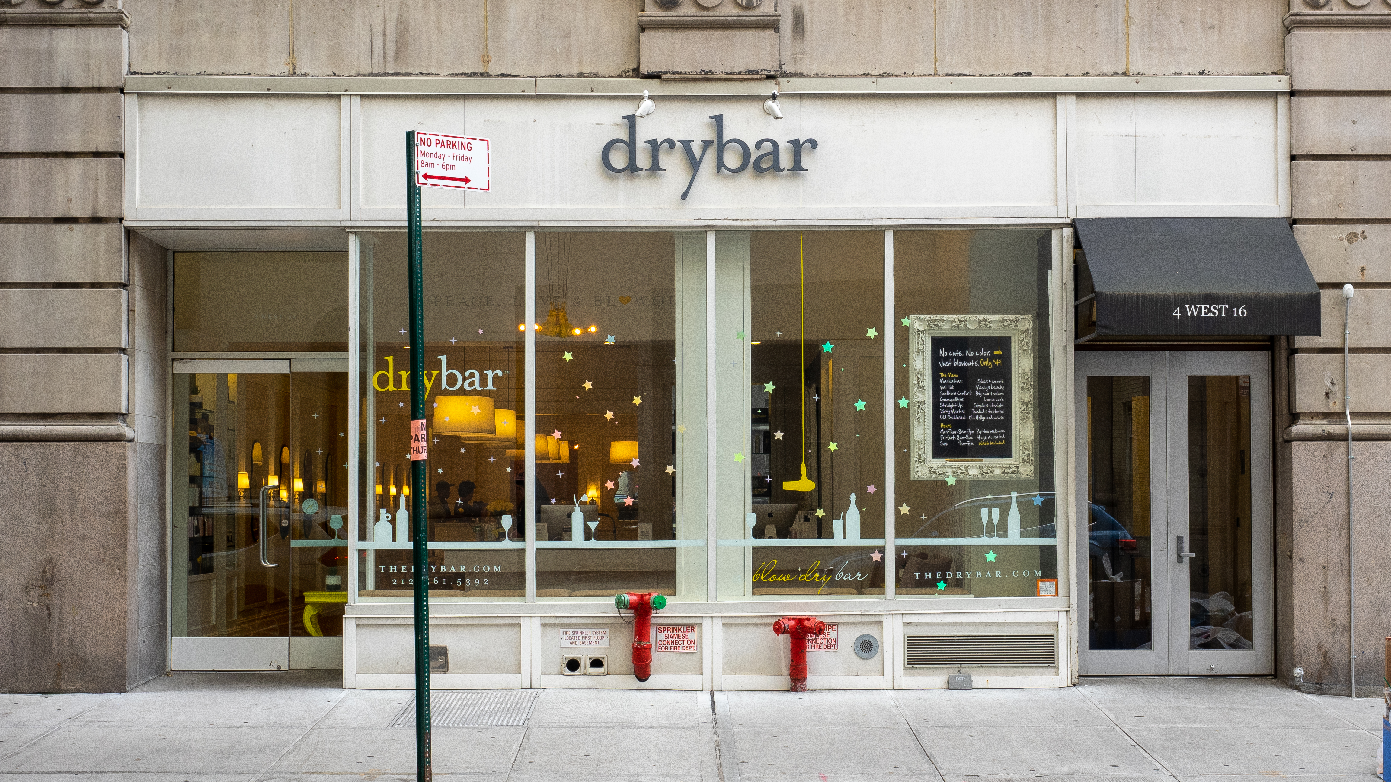 Chelsea, Manhattan, NYC